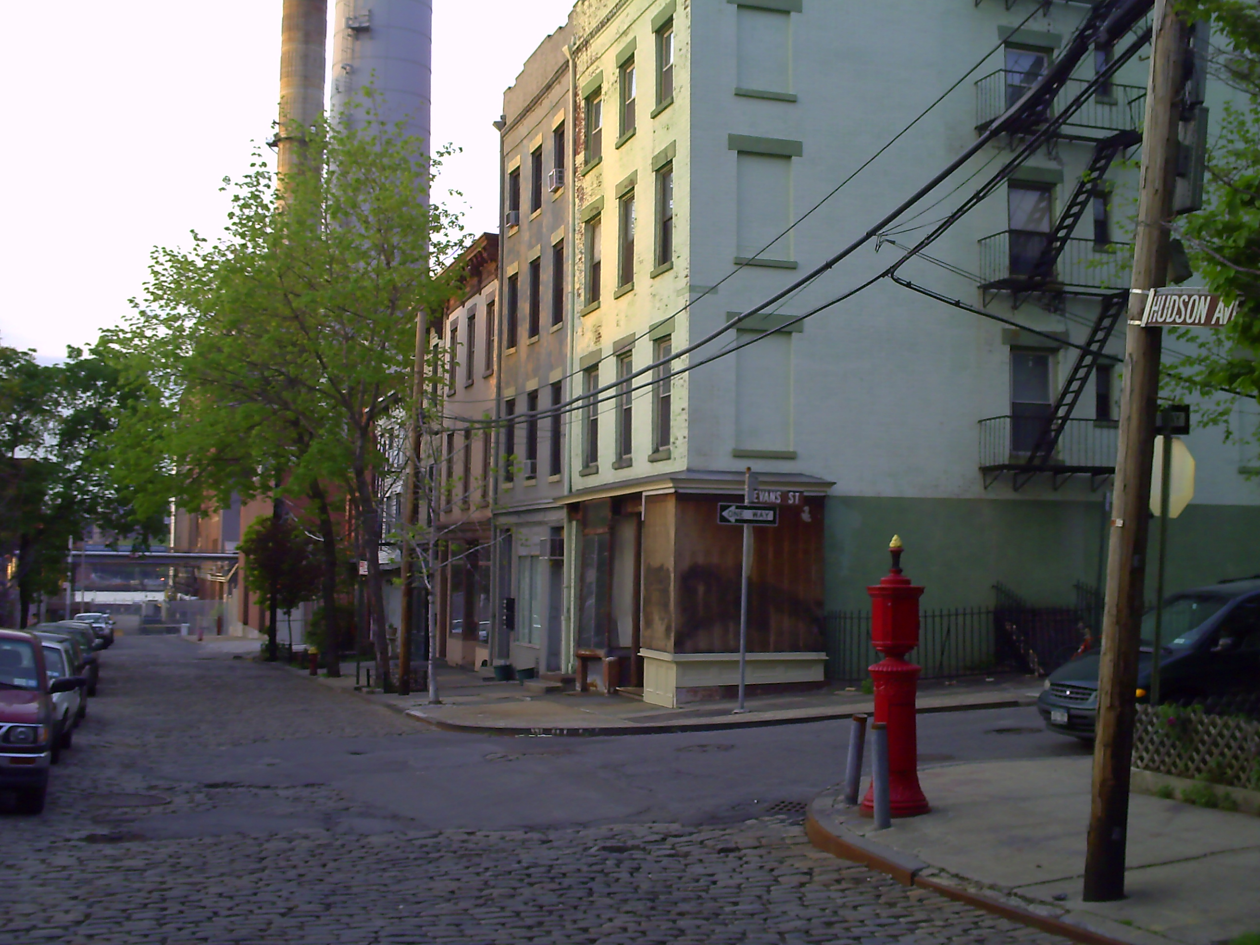 Street scene of Hudson Ave, Vinegar Hill, Brooklyn, New York City